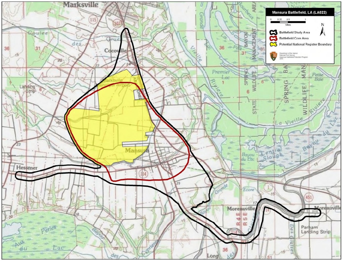 Map of battlefield core and study areas. The revised Study Area includes the route of the Federal advance from Marksville and deployment across the level plain north of Moreauville. It also includes the route taken by Confederate forces retreating toward Hessmer, a movement that allowed MG Banks to continue his march east and provided MG Taylor with the opportunity to strike at the Federal wagon trains. The Core Area was enlarged slightly at the southwest corner to include previously unmapped Confederate artillery positions.